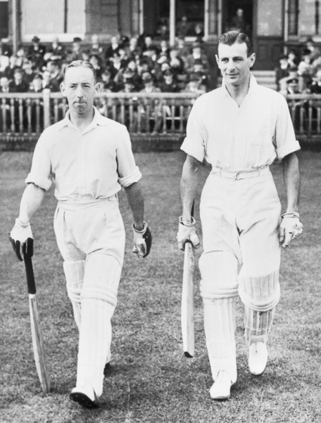 Lindsay Hassett and Stan Sismey walk out to bat, Victory Tests, more information at link